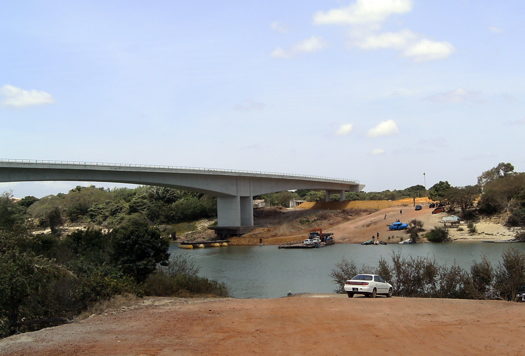 Guyana/Brazil bridge under construction in April, 2008. Facing west from Guyana into Brazil in Lethem.